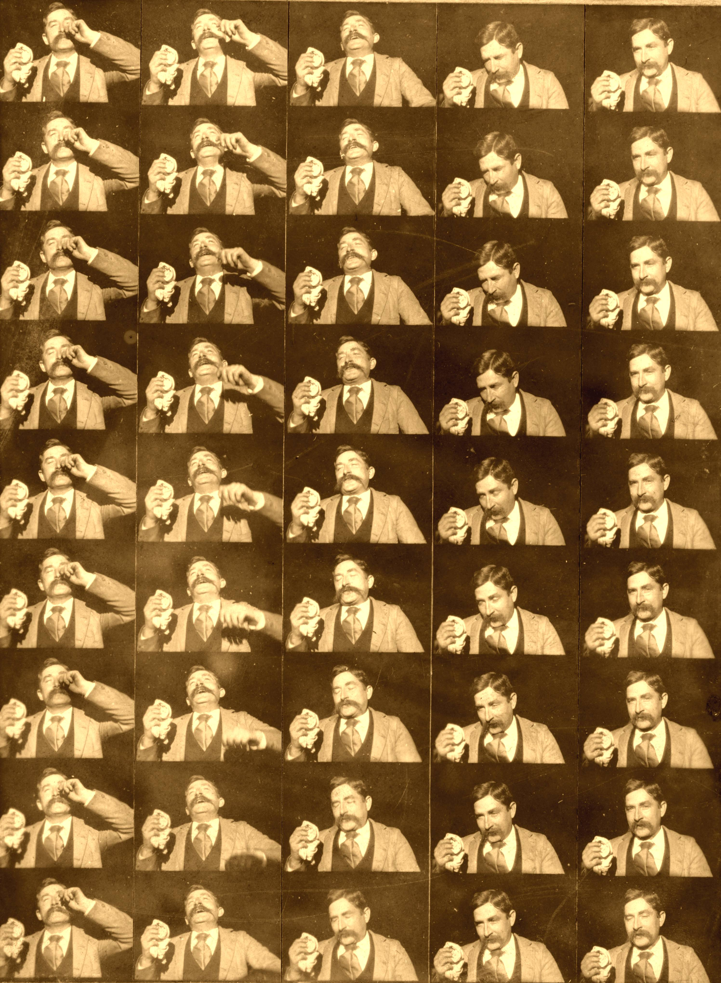 Edison kinetoscopic record of Fred Ott's sneeze / taken & copyrighted by W.K.-L. Dickson, Orange, N.J. 1 photographic print : gelatin printing-out paper print ; 7 x 5 in.